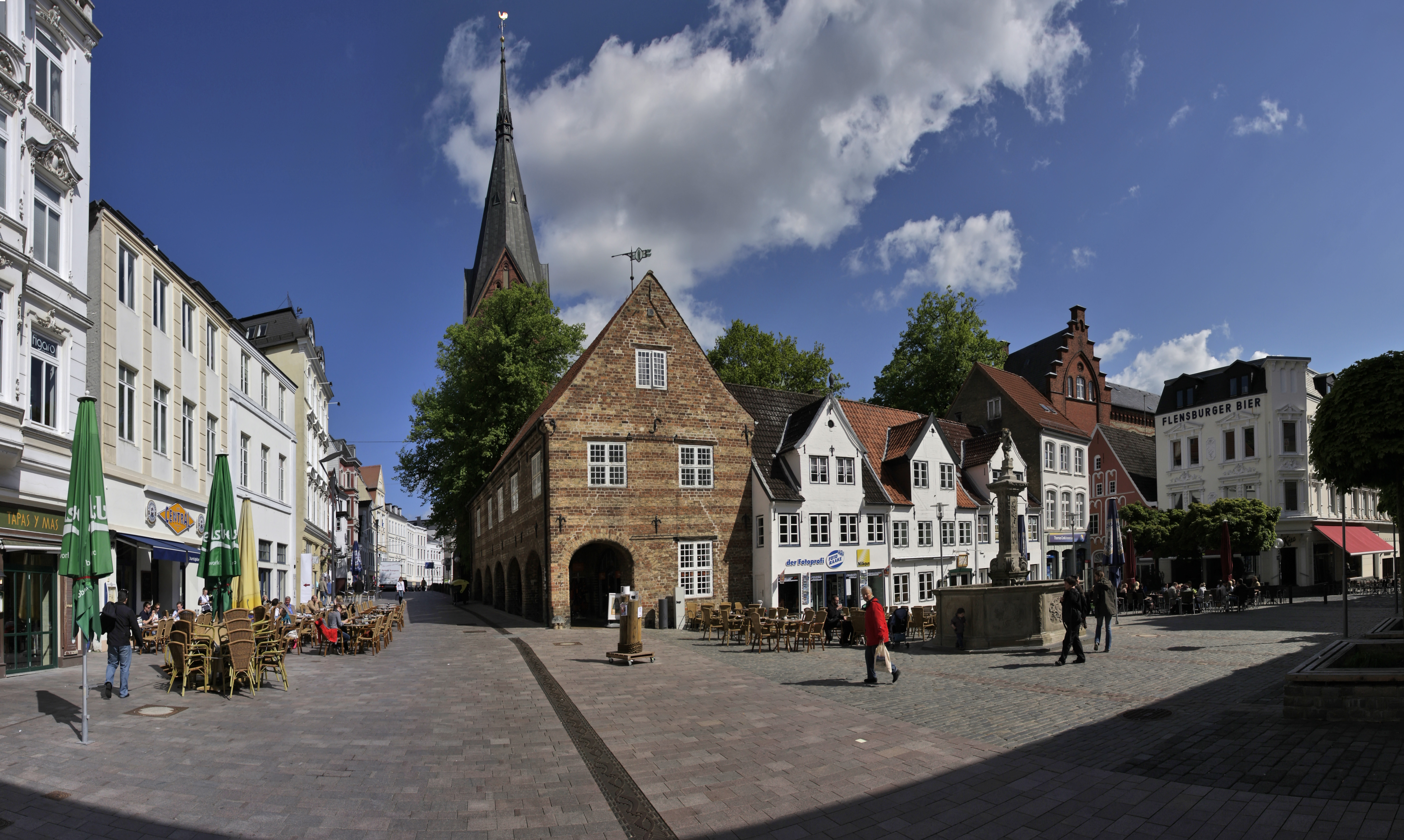 The Nordermarkt with Schrangen/Skrangerne and the Neptune Fountain in Flensburg